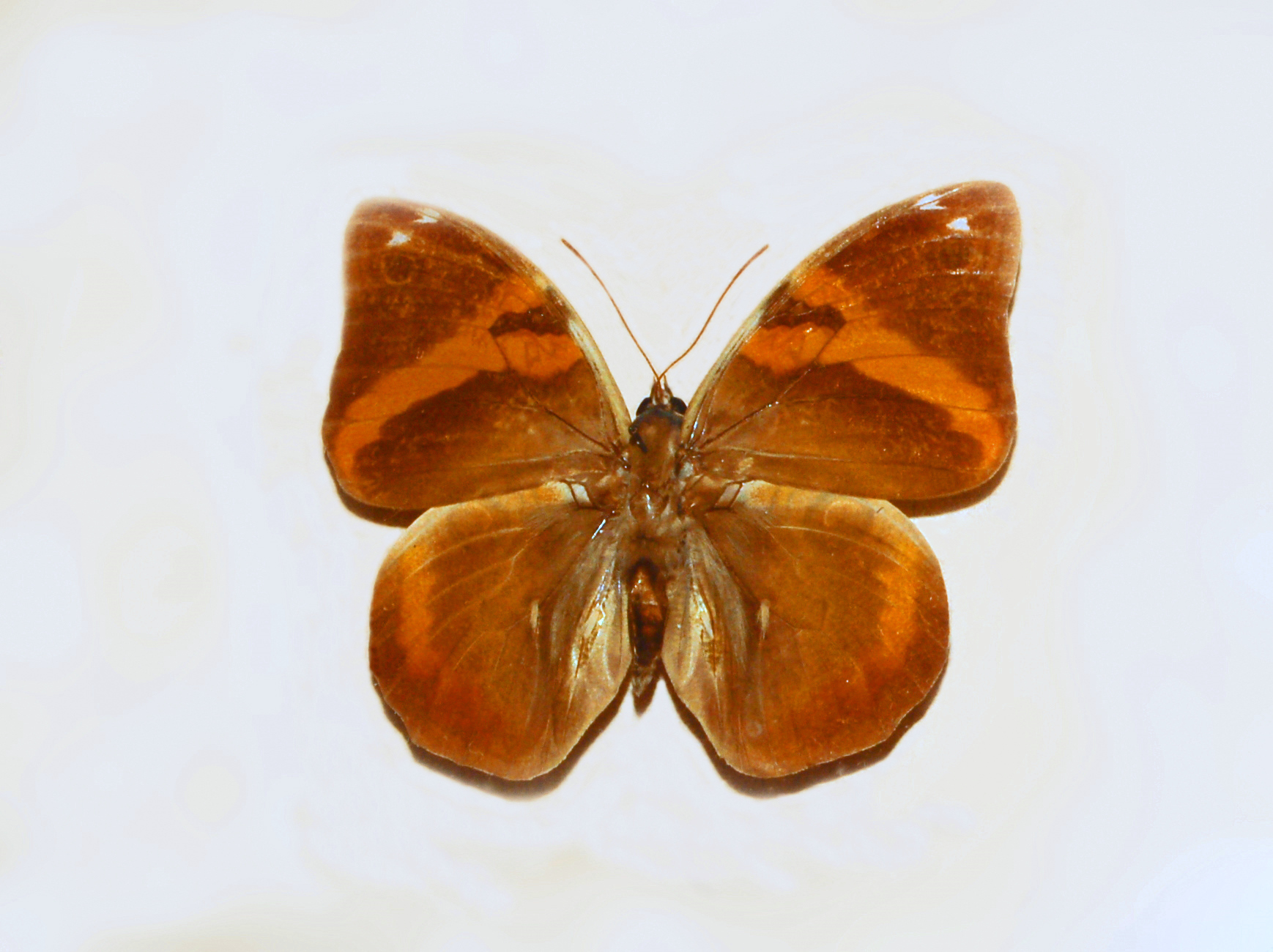 Opsiphanes cassina from Peru